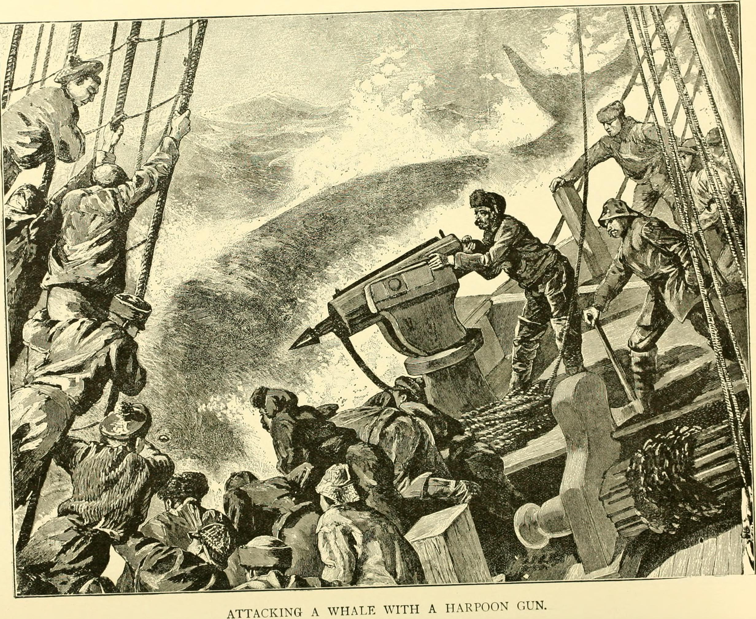 Attacking a whale with a harpoon gun Title: Hunting and trapping stories; a book for boys Year: 1903 (1900s) Authors: (Price, J. P. Hyde), 1874- (from old catalog) Subjects: Hunting Publisher: New York, McLoughlin bro's Text Appearing Before Image: ^ ^=r^^#^i^^^^F^^% GUINEA-PIG CA Natural Size). Text Appearing After Image: WHALE HUNTING IN THE SEYCHELLE ISLANDS The Seychelles are a group of islands lying off the east coast of Africa,between Madagascar and the mouth of the Red Sea. These islands are notoften visited, for they lie close to the Equator, and are out of the great traderoutes. Many years ago the Seychelles were very important, as they werethe headquarters of the wh-ale ships. At certain seasons of the year the greatsperm whale loves to swim in the warm season the outer edge of these islands,and consquently numbers of ships collect intent upon its capture. A few years ago an American whaler put into the Seychelles for woodand water. While there she had a series of exciting adventures which I amsure you would like to hear about. When the ship had anchored a chiefcame out from the shore in his canoe and had a long talk with the captain.The chief declared that the vessel lay in a dangerous position, as a hurricanewas coming up; so the captain with the help of scores of canoes mannedby sturdy nati